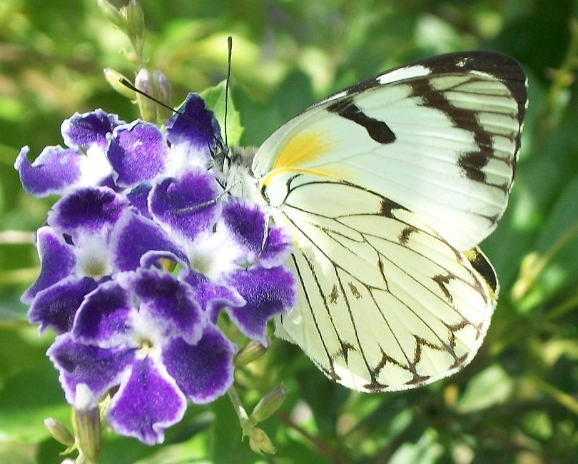 Side view of female Belenois zochalia from the Karkloof area of KwaZulu-Natal, South Africa.